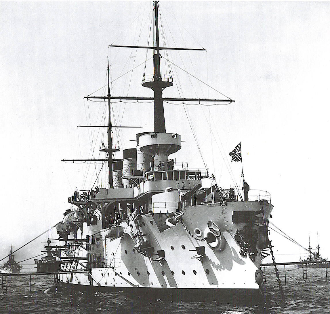 Imperial Russian Ironclad warship Pobeda.